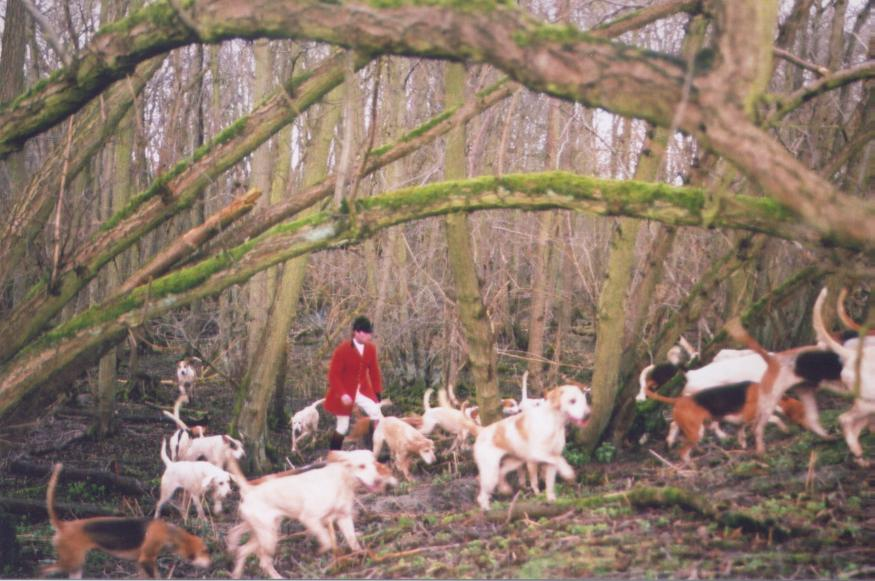 Photo by R.W. de Salis, Feb, 2005. User:RodolphRodolph 11:48, 22 January 2007 (UTC) that is to say that I took the photo, and then uploaded it.User:RodolphRodolph (User talk:Rodolphtalk) 19:46, 11 January 2012 (UTC)